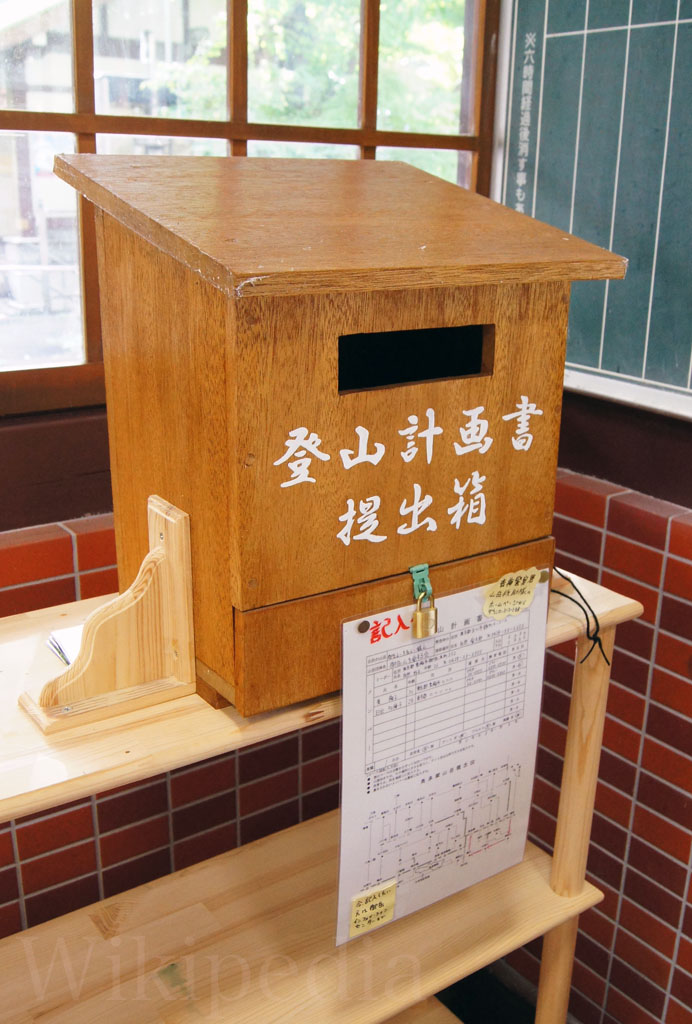 Box for posting climbing plans at Mitake Station, Tokyo, Japan